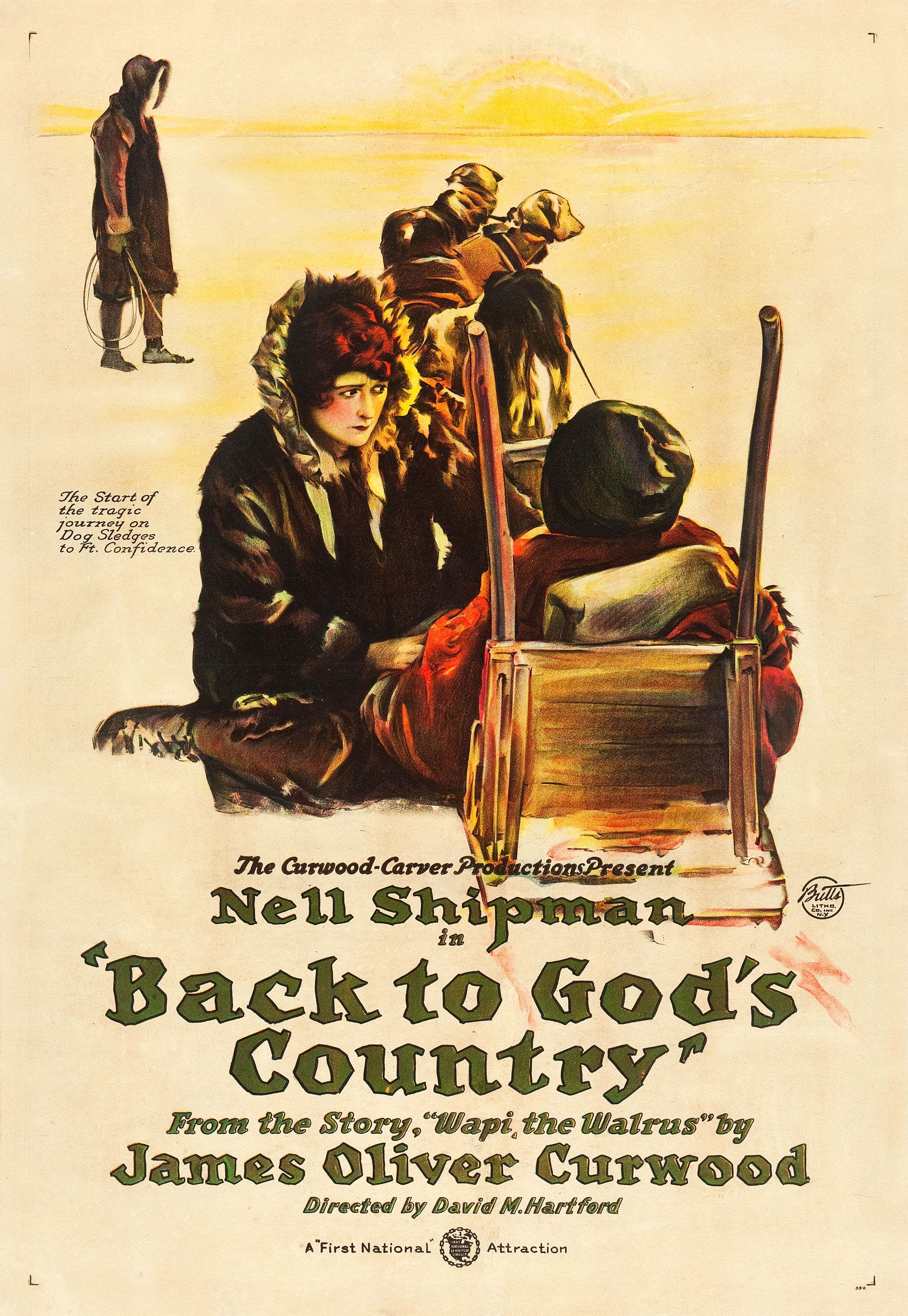 Film poster for the Canadian film Back to God's Country (1919). The poster uses a painting and no stills from the film.